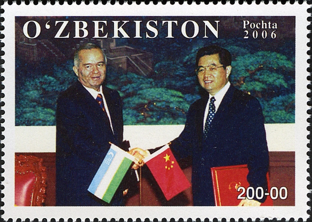 Stamps of Uzbekistan, 2006